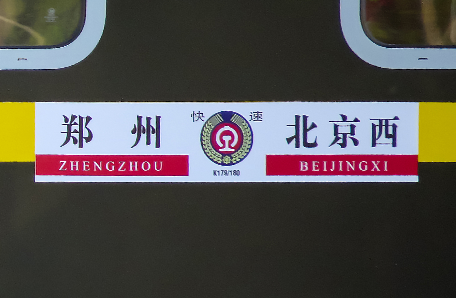 The "Trump" of Zhengzhou Railway Bureau. This train used to provide RW19K...